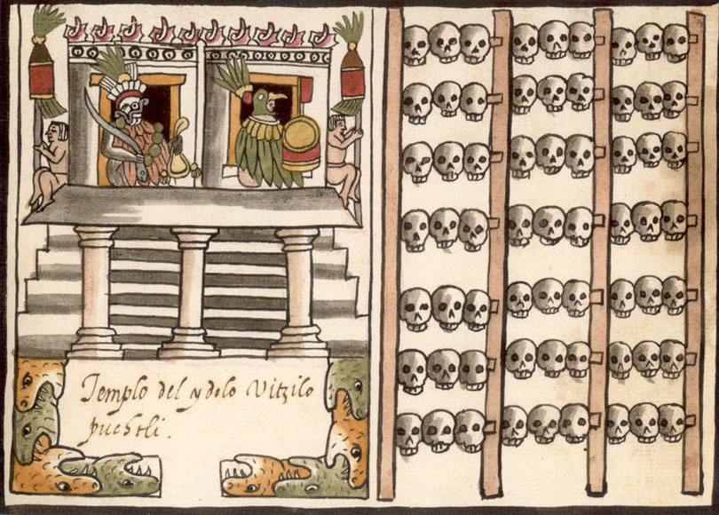 Depiction of a tzompantli ("skull rack"), right half of image; associated with the depiction of Aztec temple dedicated to the deity Huitzilopochtli. From the 1587 Aztec manuscript, the Codex Tovar. Description from World Digital Library: "This illustration, from the second section, shows (at left) a temple or pyramid surmounted by the images of two gods flanked by native Mexicans. On the temple is an image of Huitzilopochtli on the right, and an image of Tlaloc holding a turquoise serpent is on the left. The temple is surrounded by a wall of serpents swallowing one another's heads. At right is a tzompantli (Aztec skull rack). Huitzilopochtli, whose name means "Blue hummingbird on the left," was the Aztec god of the sun and war. The xiuhcoatl (turquoise or fire serpent) was his mystical weapon. Tlaloc, the god of rain and agriculture, was of pre-Aztec, or Toltec, origin. A coatepantli (wall made of sculpted serpents) often surrounds Aztec temples. The tzompantli would hold the skulls of sacrificial victims. The great temple at Tenochtitlan was surmounted by two sanctuaries—the one on the left dedicated to Tlaloc, the one on the right to Huitzilopochtli."